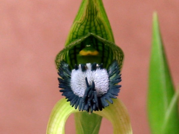 Photos by Roberto Takase & Dalton Holland Baptista for Orchidstudium